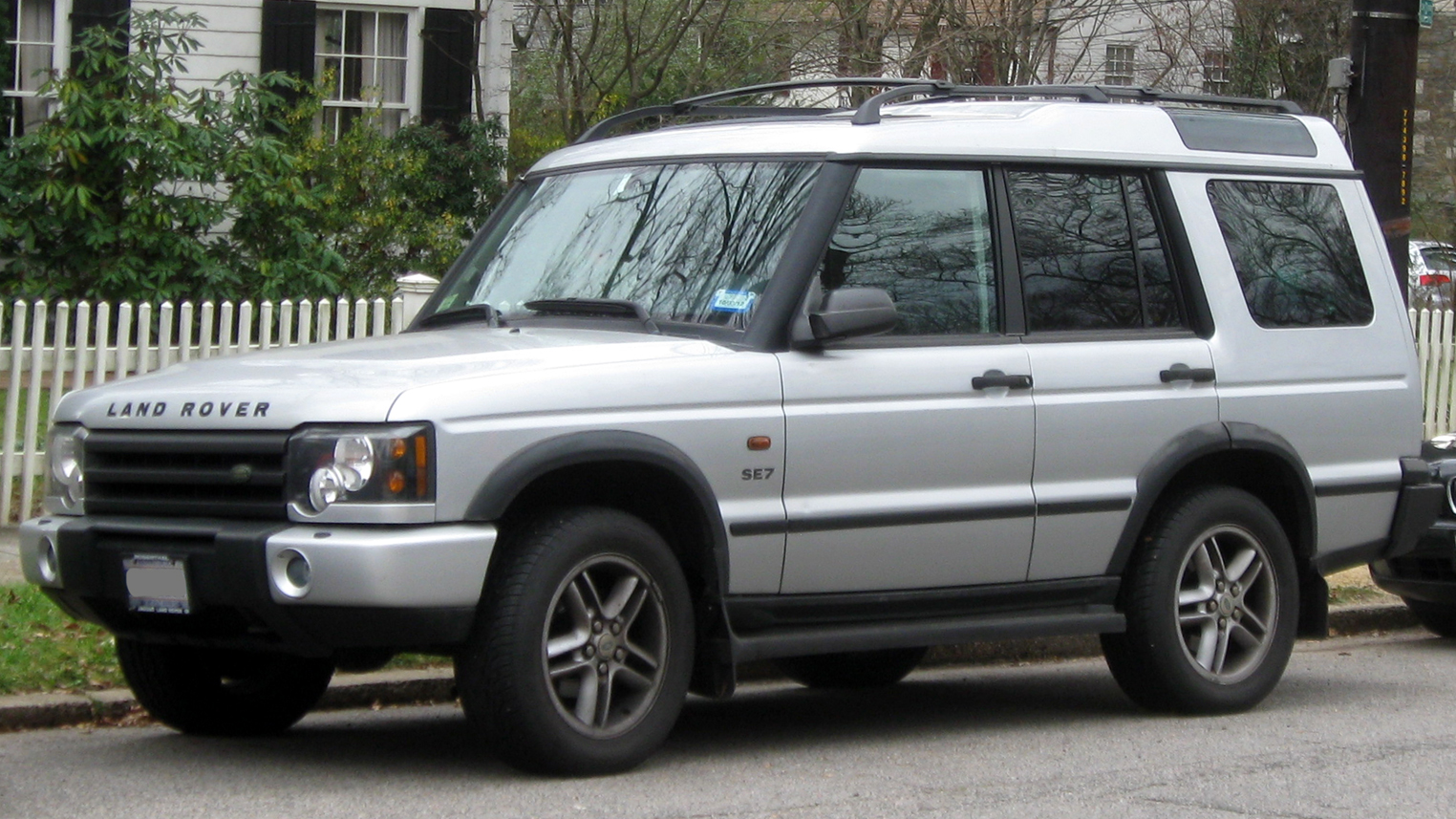 2003-2004 Land Rover Discovery photographed in Washington, D.C., USA.